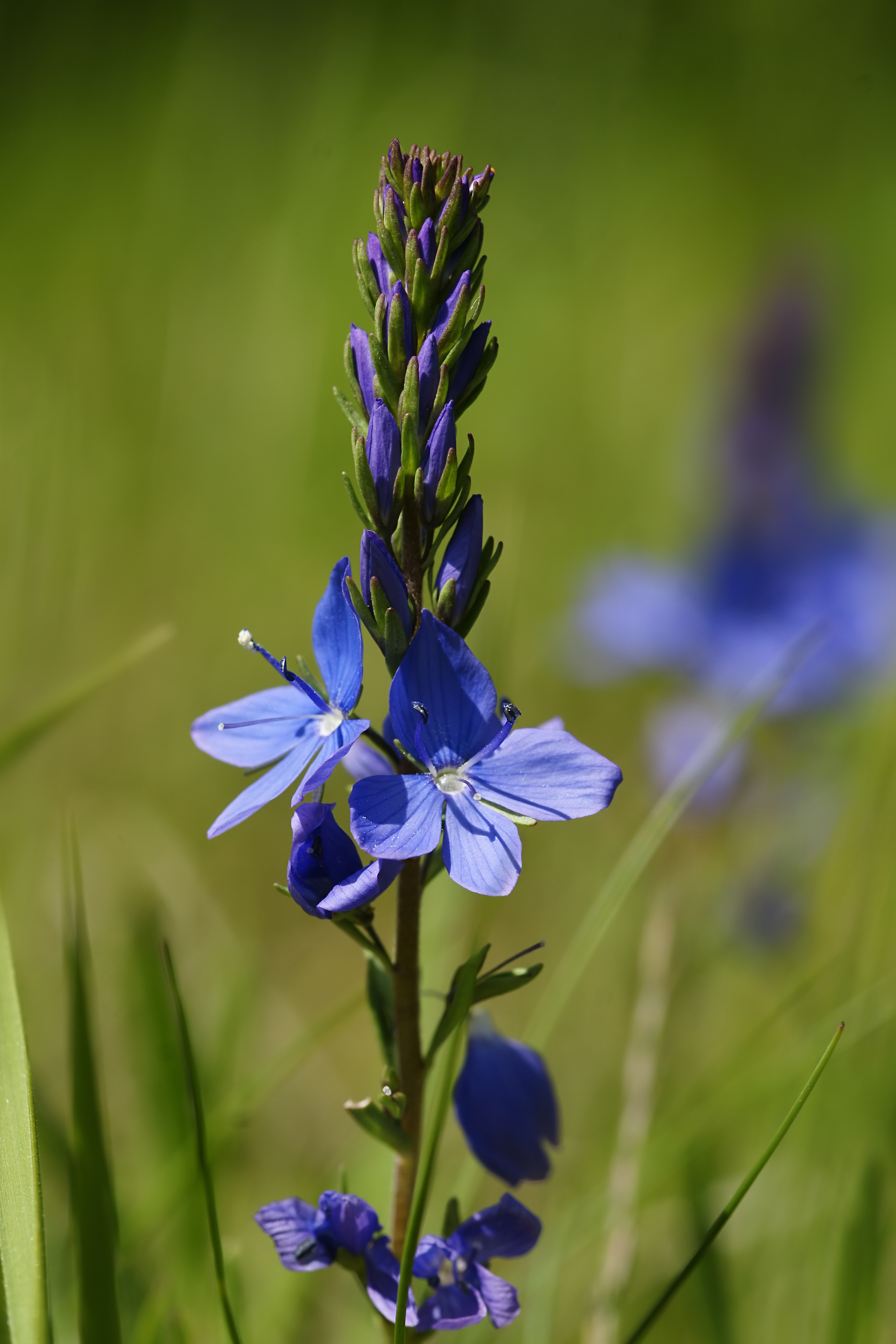 The in Belgium rare Sprawling Speedwell. Approximate co-ordinates: plant located within 3 km from Dourbes